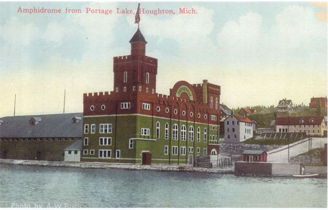 Postcard showing the Ampidrome in Houghton, upper Michigan. Taken sometime between 1907 and 1909.